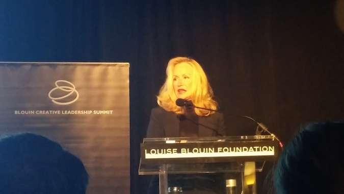 Louise Blouin - Creative Leadership Summit 2015